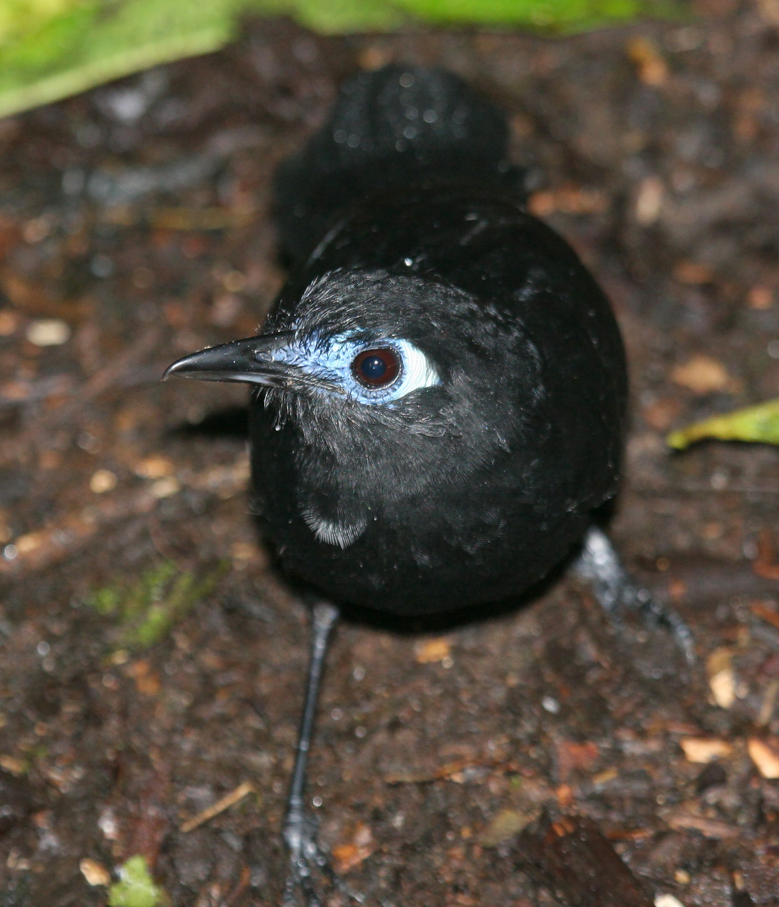 Zeledon's antbird (Myrmeciza zeledonia), Male. Tandayapa Lodge, NW Ecuador